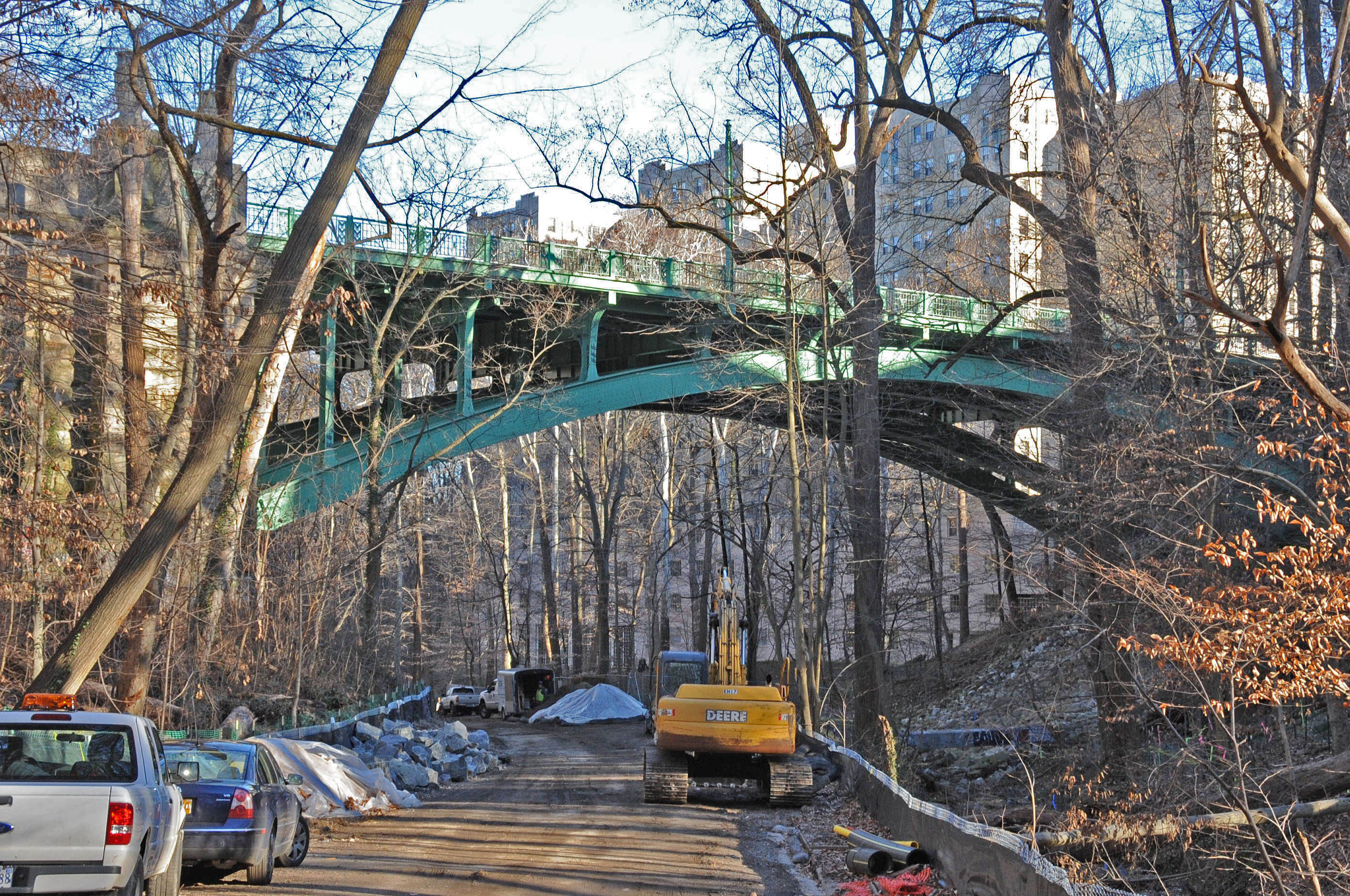 AKA CONNECTICUT AVENUE BRIDGE; ART DECO STEEL ARCH BRIDGE A CROSS KLINGLE VALLEY; DESIGNED BY PAUL PHILIPPE CRET AND BUILT IN 1931